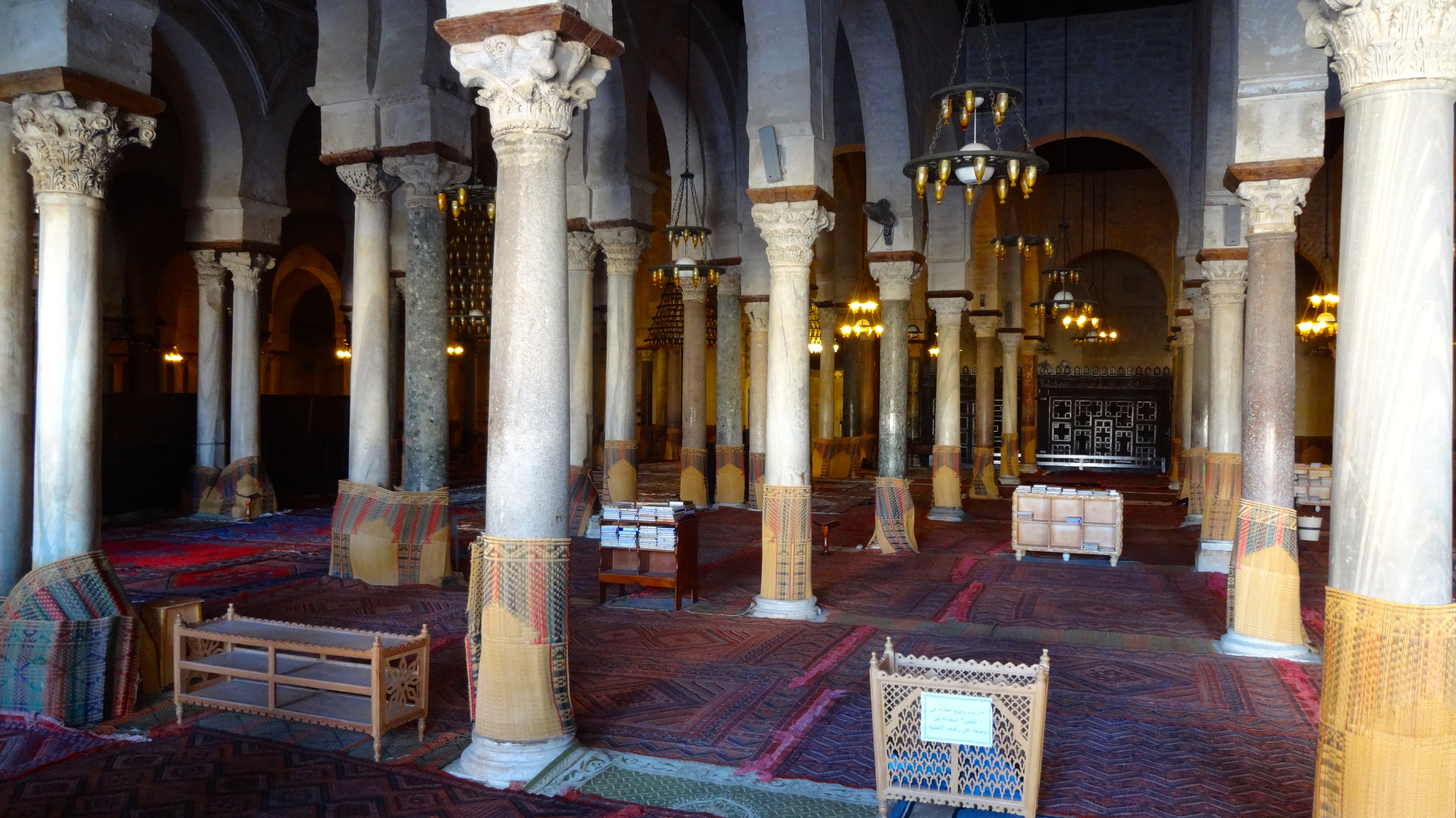 View of one of the secondary naves of the prayer hall of the Great Mosque of Kairouan (also called Mosque of Uqba), in Tunisia.